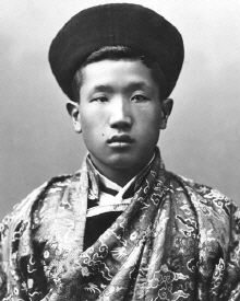 Sidkeong Tulku Namgyal, was the ruling Maharaja and Chogyal of Sikkim for a brief period in 1914, from 10 February to 5 December.